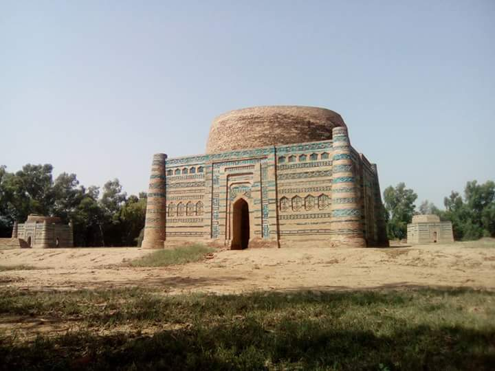 Graveryard including four tombs at Lal Mohra Sharif This is a photo of a monument in Pakistan identified as the KPK-10